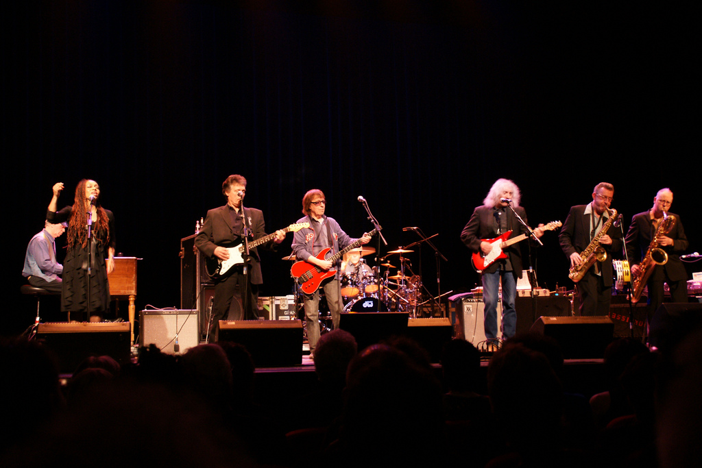 Bill Wyman and his Rhythm Kings Middelburg 27-01-2009